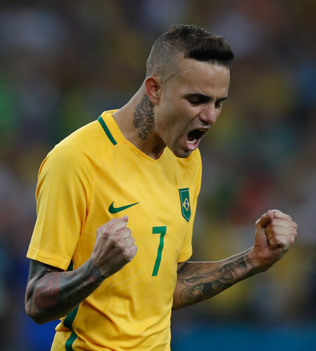 Rio de Janeiro - Brasil vence Alemanha e conquista primeiro ouro olímpico do futebol (Fernando Frazão/Agência Brasil)